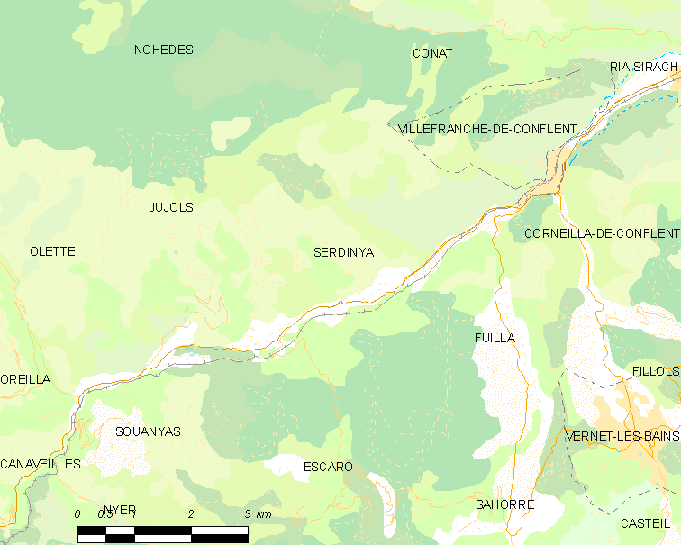 Map of French municipality